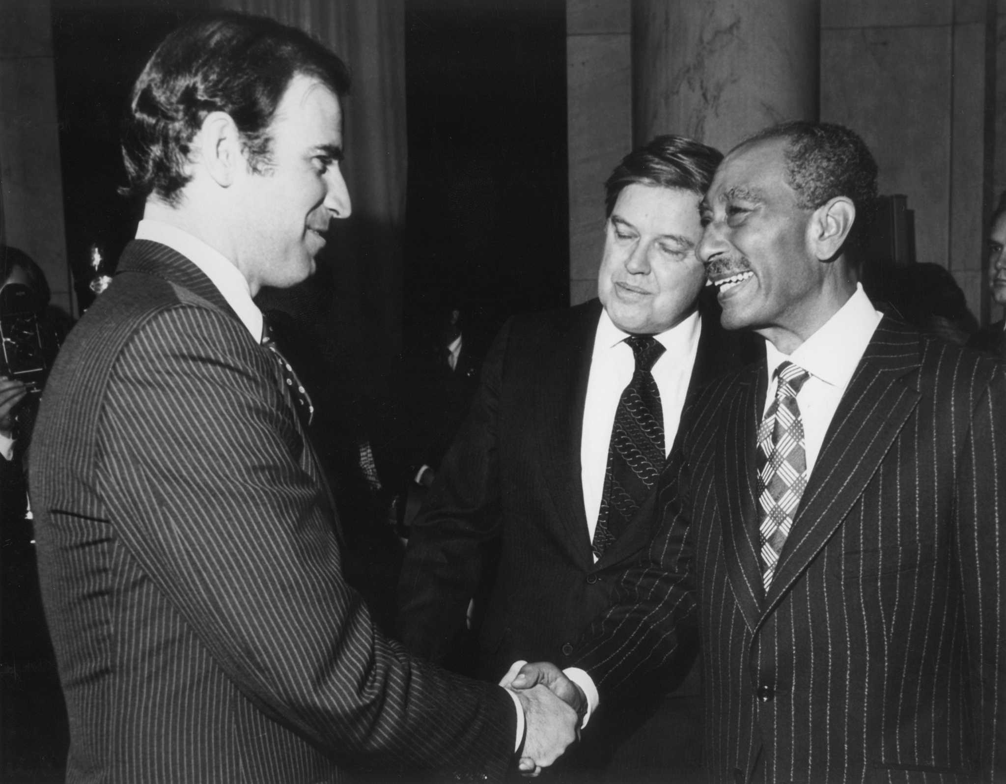 From left: United States Senator and future Vice President Joe Biden (D-DE), Chairman of the Senate Committee on Foreign Relations Frank Church (D-ID) and President of Egypt Anwar Sadat after the signing of the Egyptian-Israeli Peace Treaty